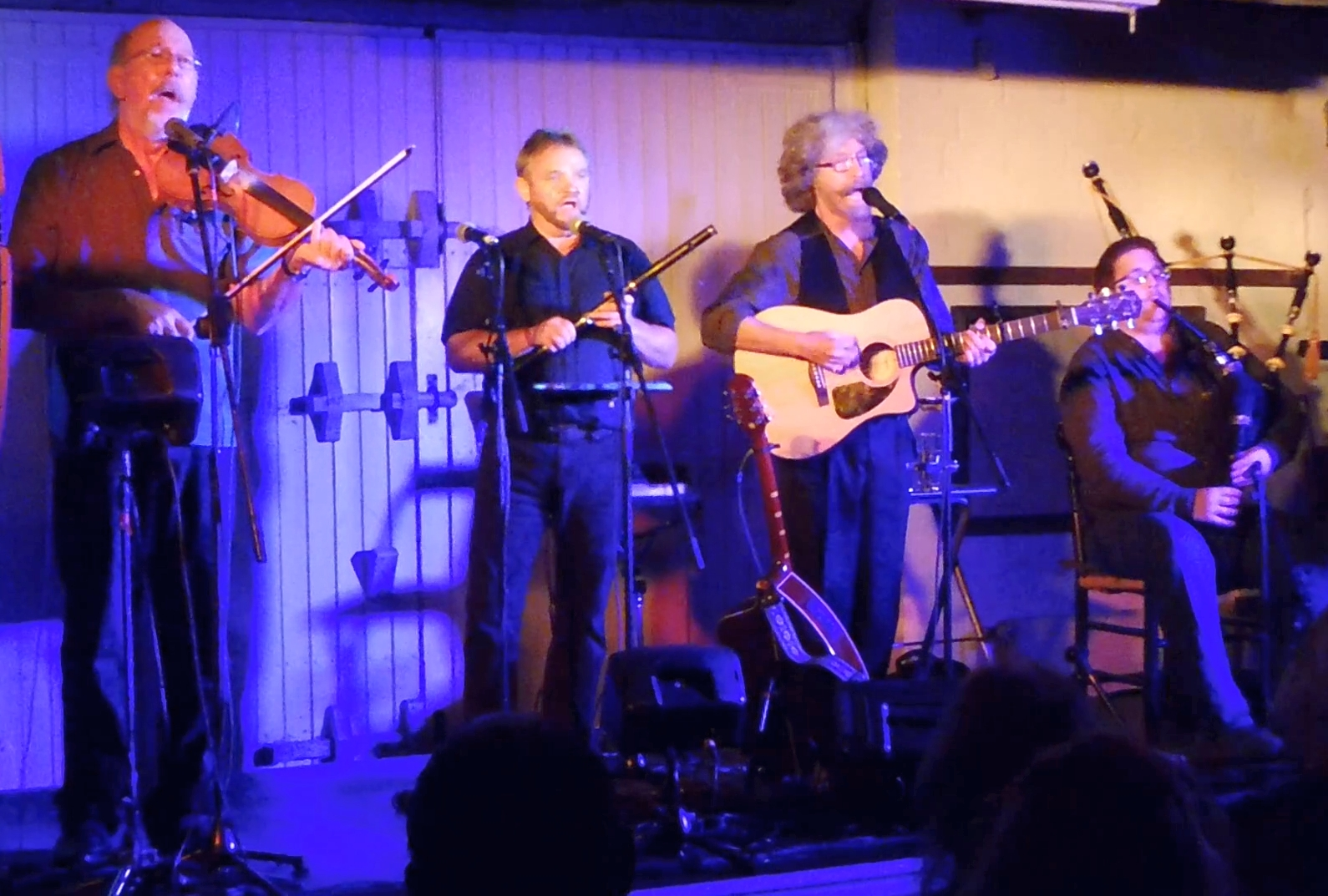 The Tannahill Weavers in Schneverdingen, Germany 17.11.16